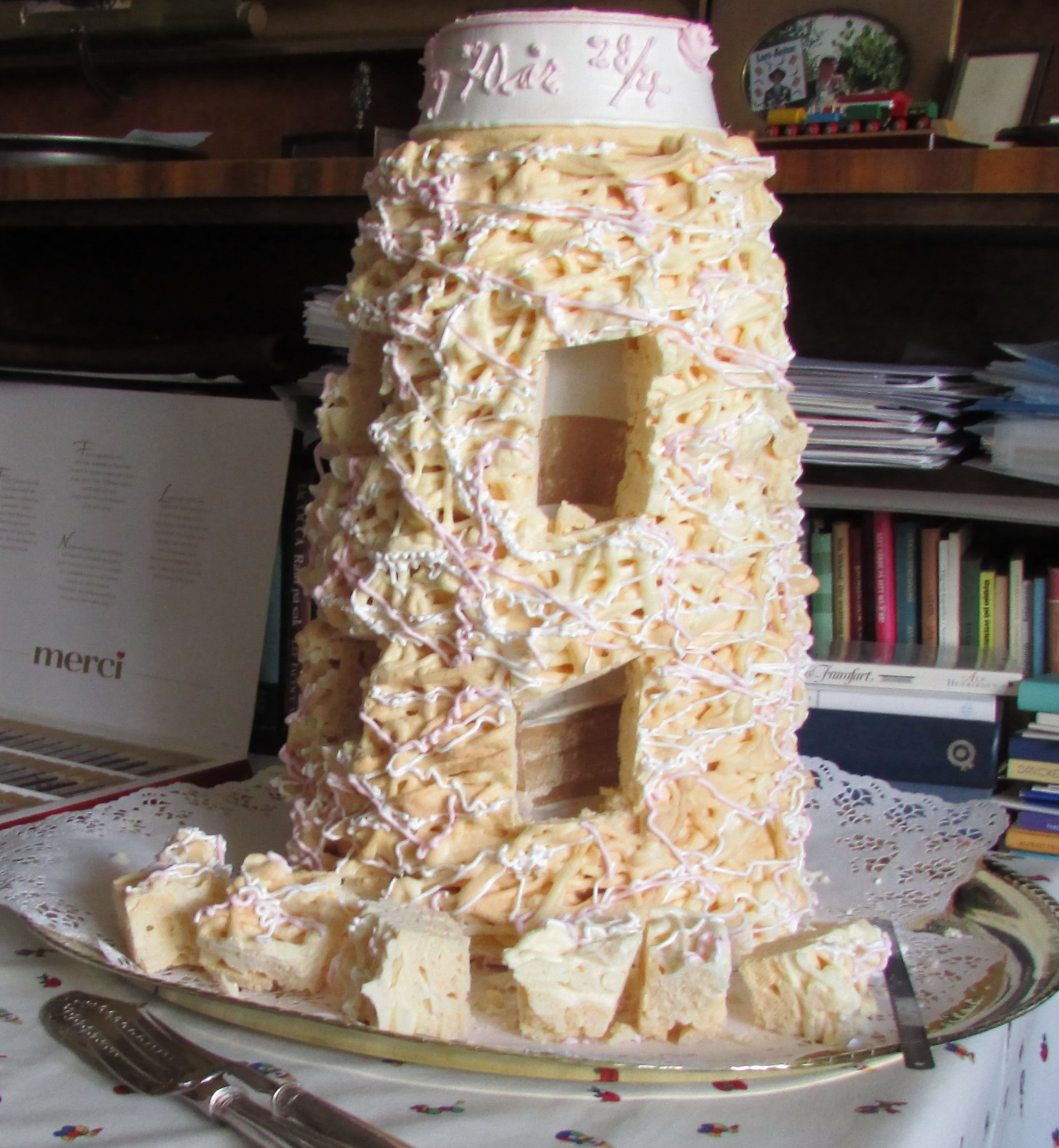 Swedish